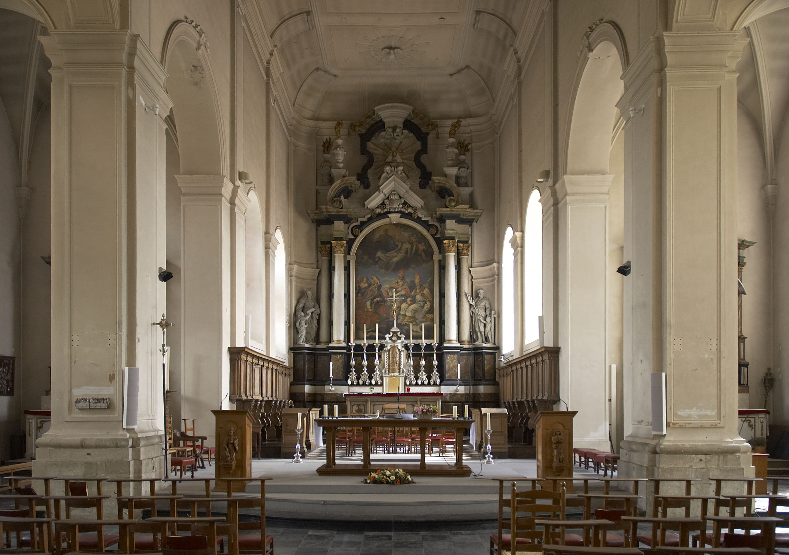 Saint Georges church of Grez-Doiceau, Belgium